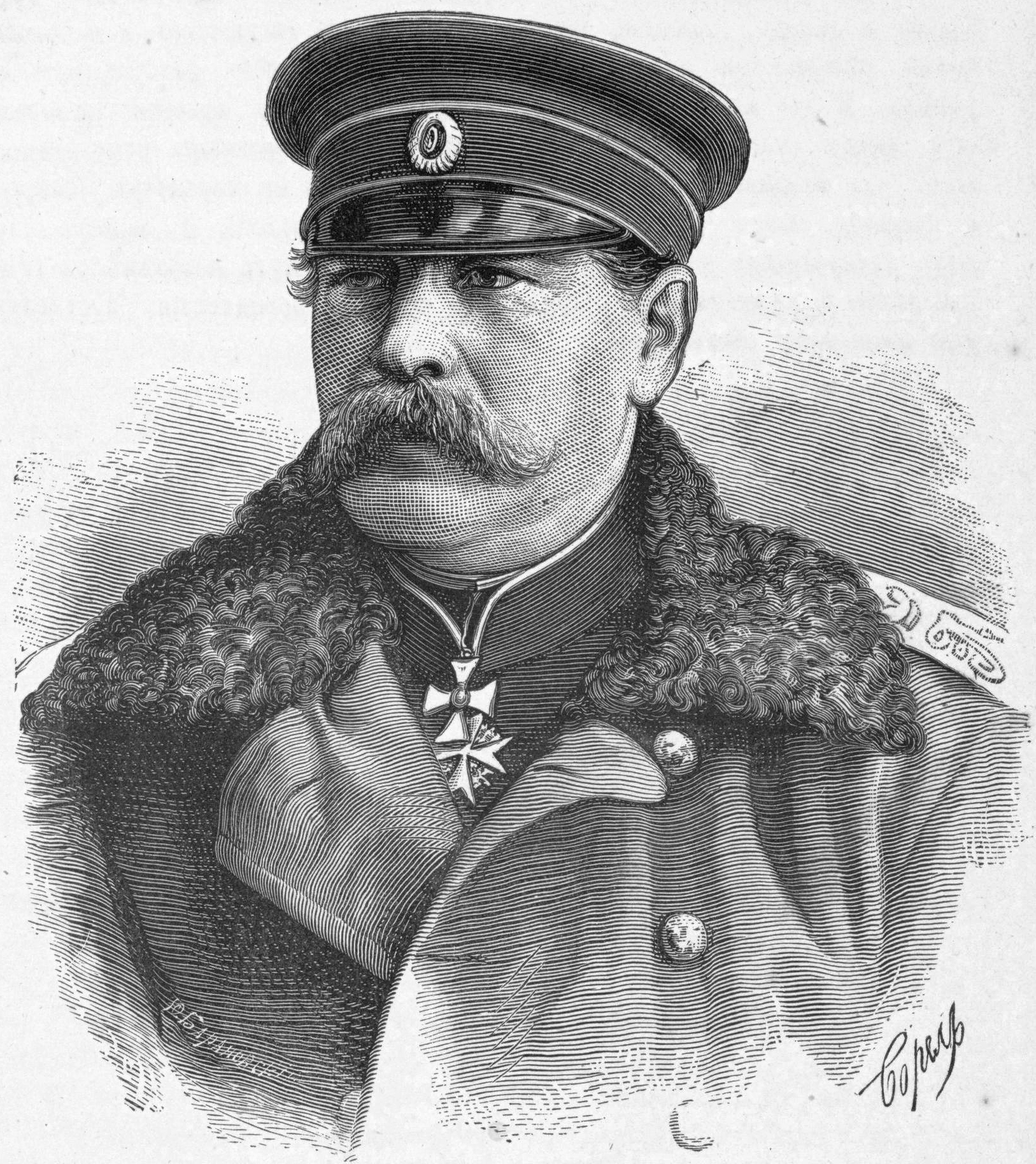 Eduard Totleben